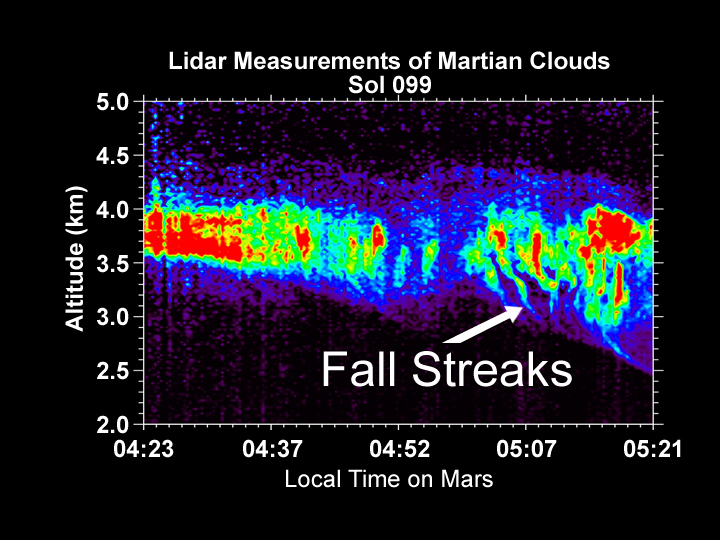 n the early morning hours of sol 99, Phoenix used its lidar (a skyward-pointing green laser beam) to search for clouds. The beam detected clouds at elevations between 3.5 and 4 kilometers above the surface. As the observation continued, it detected "fall streaks," where ice crystals that formed within the clouds began to descend toward the ground; as they descended, different wind speeds at different altitudes caused the sheets of falling snow crystals to shear out horizontally. When the lidar experiment quit operating at 05:21 local time, the crystals had fallen to an elevation of 2.5 kilometers, and probably fell further before they reached air that was dry enough to cause the crystals to sublimate back into a gas. Later in the season, the falling snow may survive all the way to the surface.